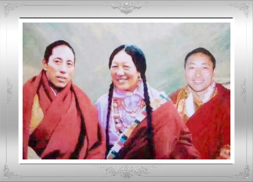 Family photo.